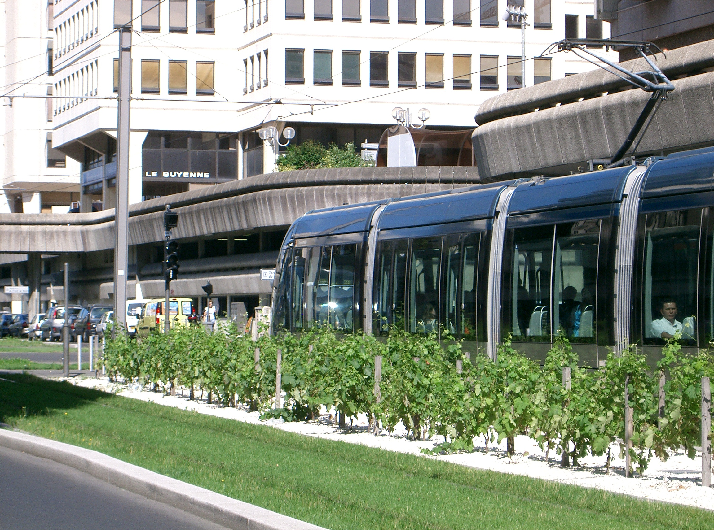 Lawn track & vines in Bordeaux Photographed by SP Smiler